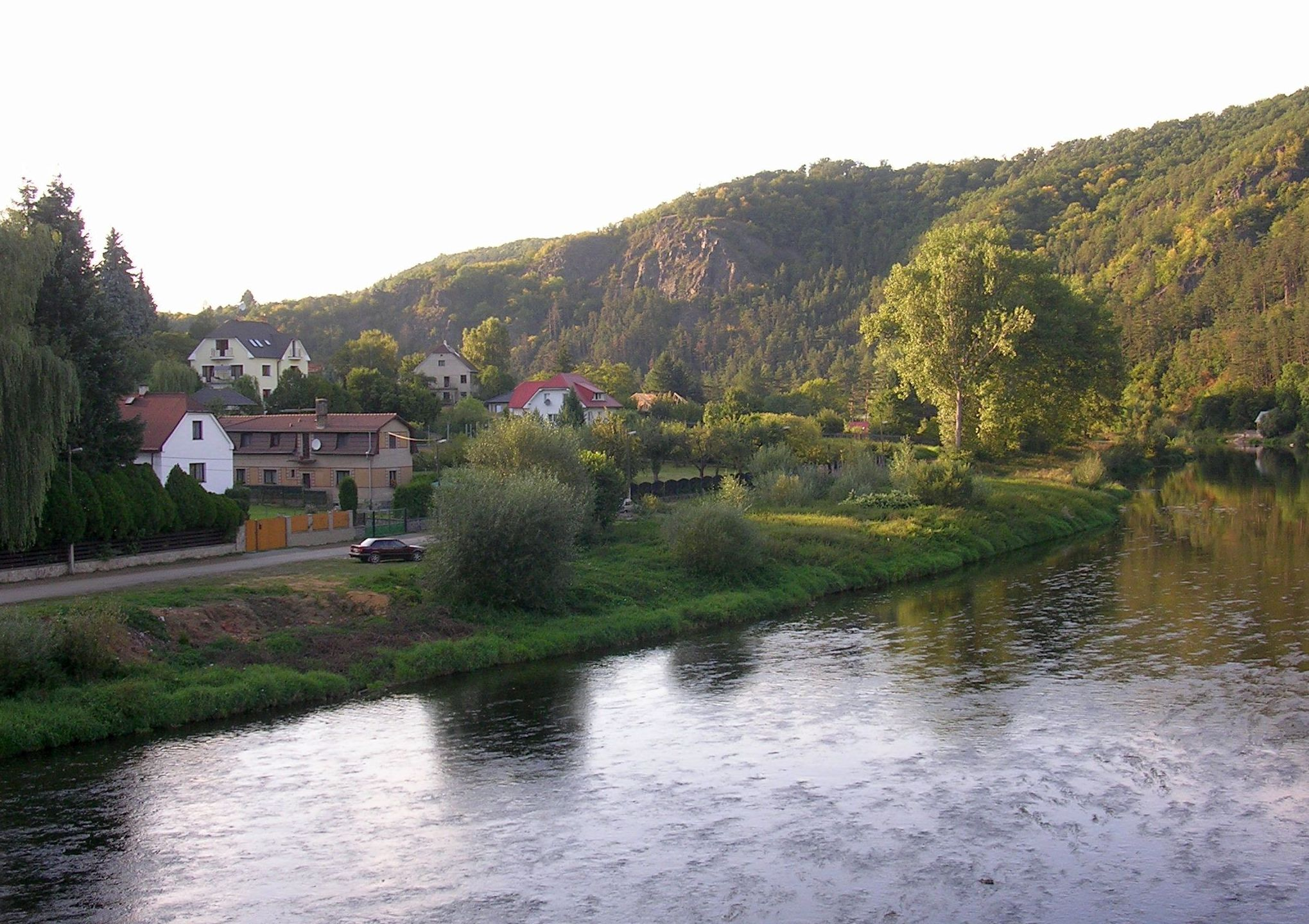 Nižbor-Žloukovice, Beroun District, Central Bohemian Region, the Czech Republic. Berounka River and nature reserve of Kabečnice. - Google Maps - Google Earth